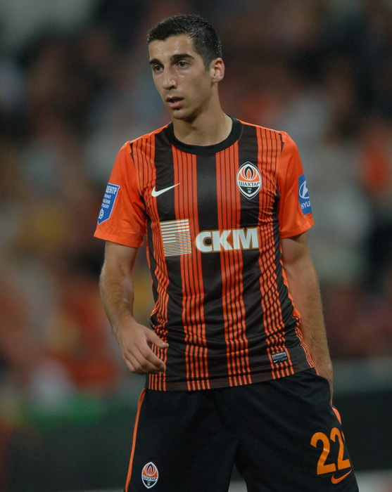 Henirk mikitarian of armenia